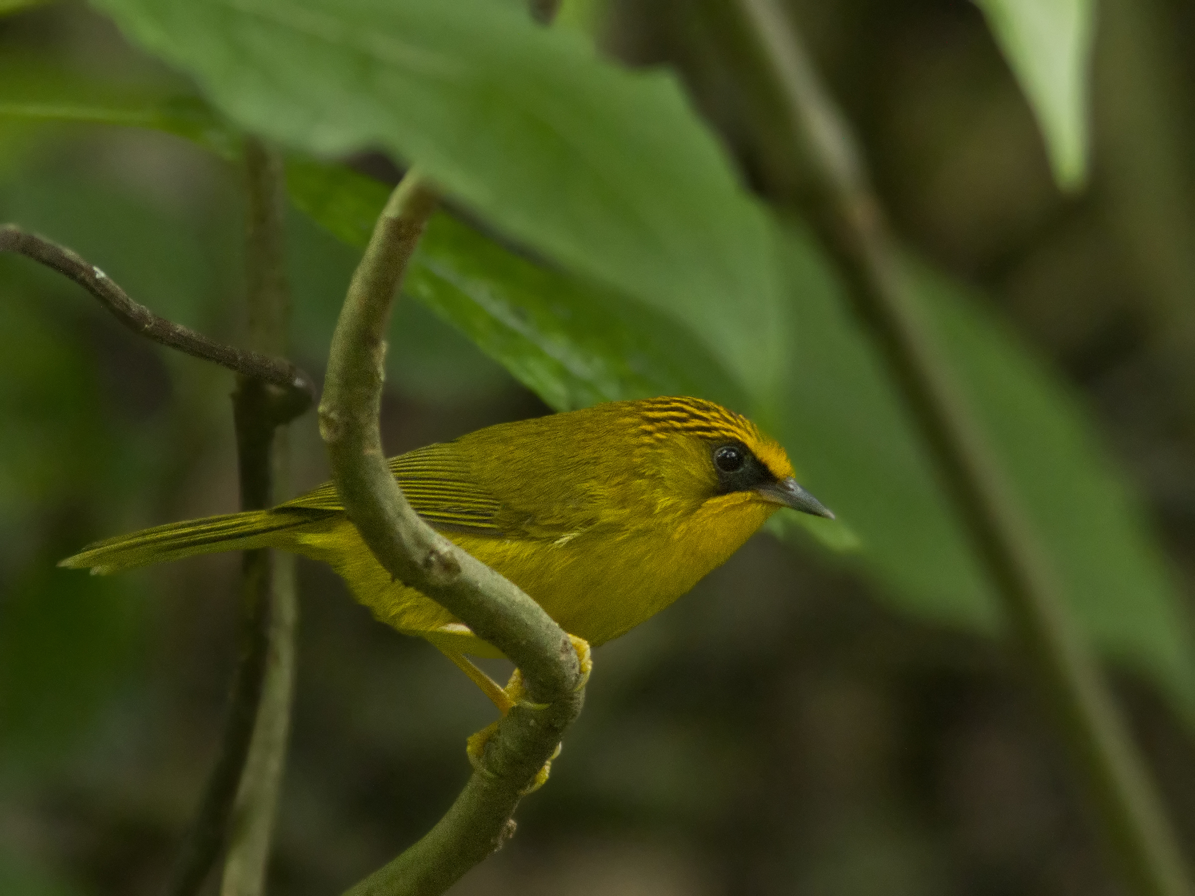 Golden Babbler (Stachyris chrysaea) at Eaglenest WLS (Arunachal Pradesh), India